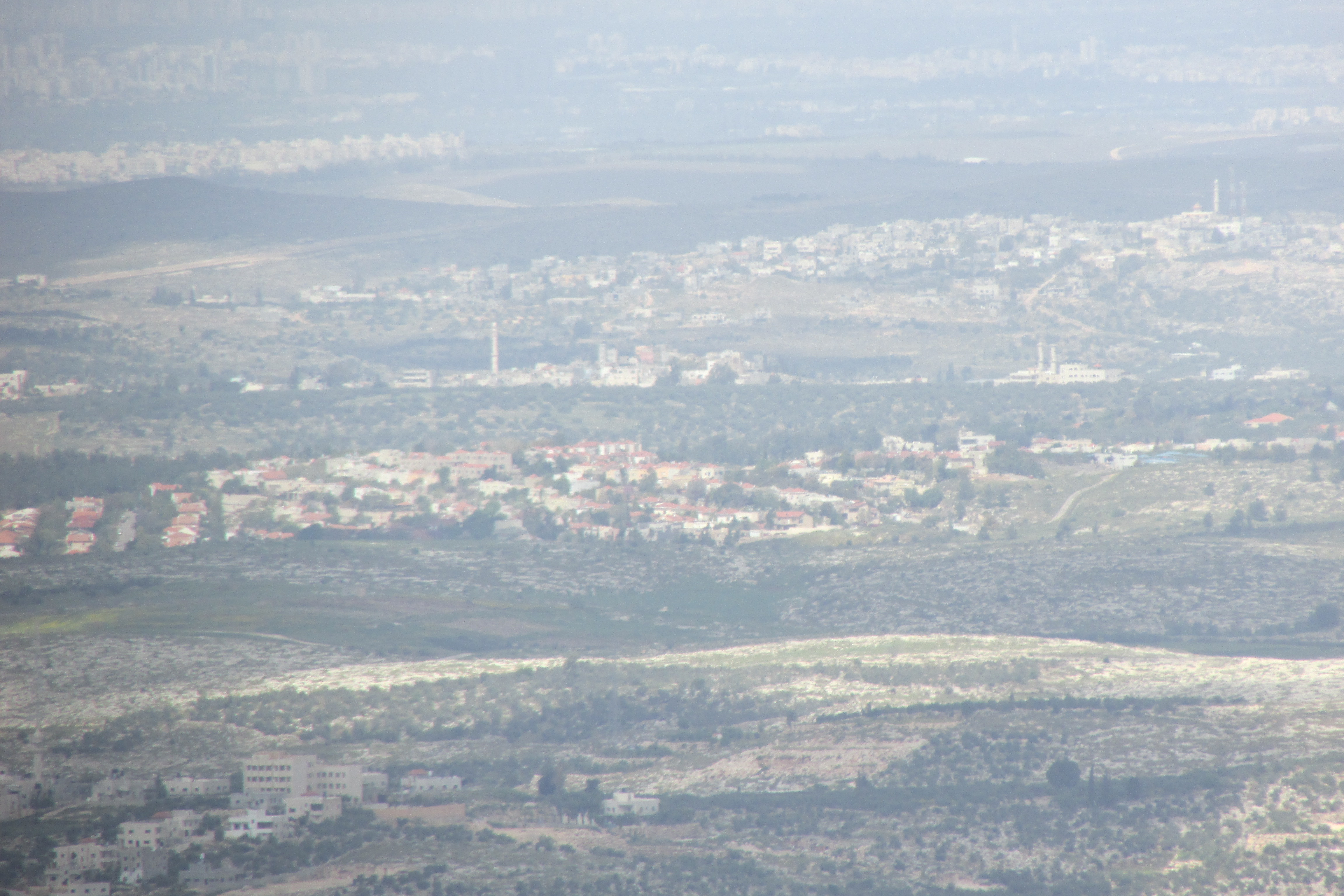 The red roofed houses in the front are Kfar HaOranim. The large village behind is Qibya. In between is Ni'lin.